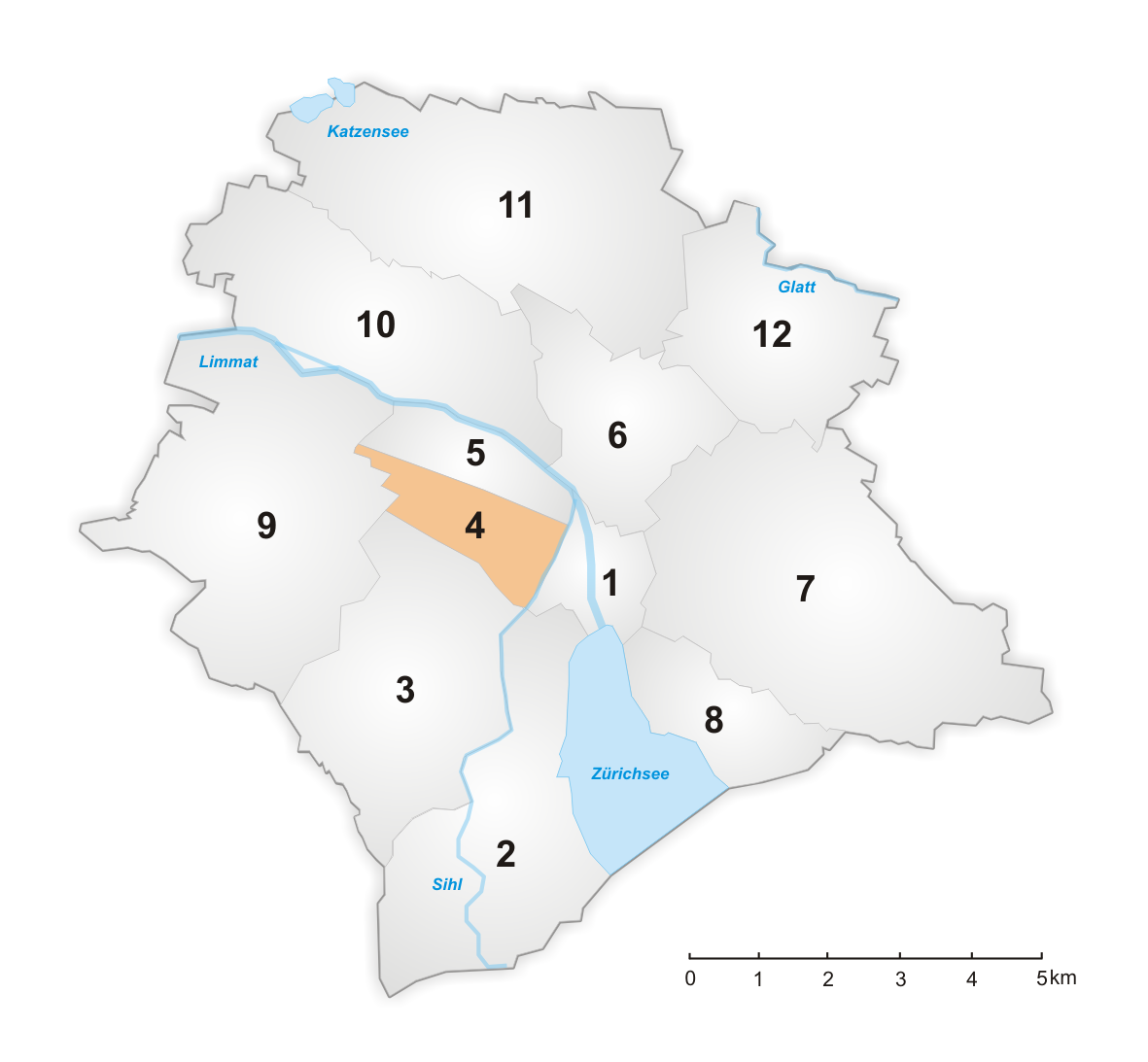 Karte Zürcher Stadtkreis 4